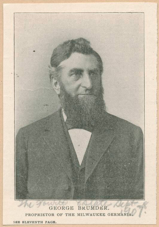 a photograph of George Brumder